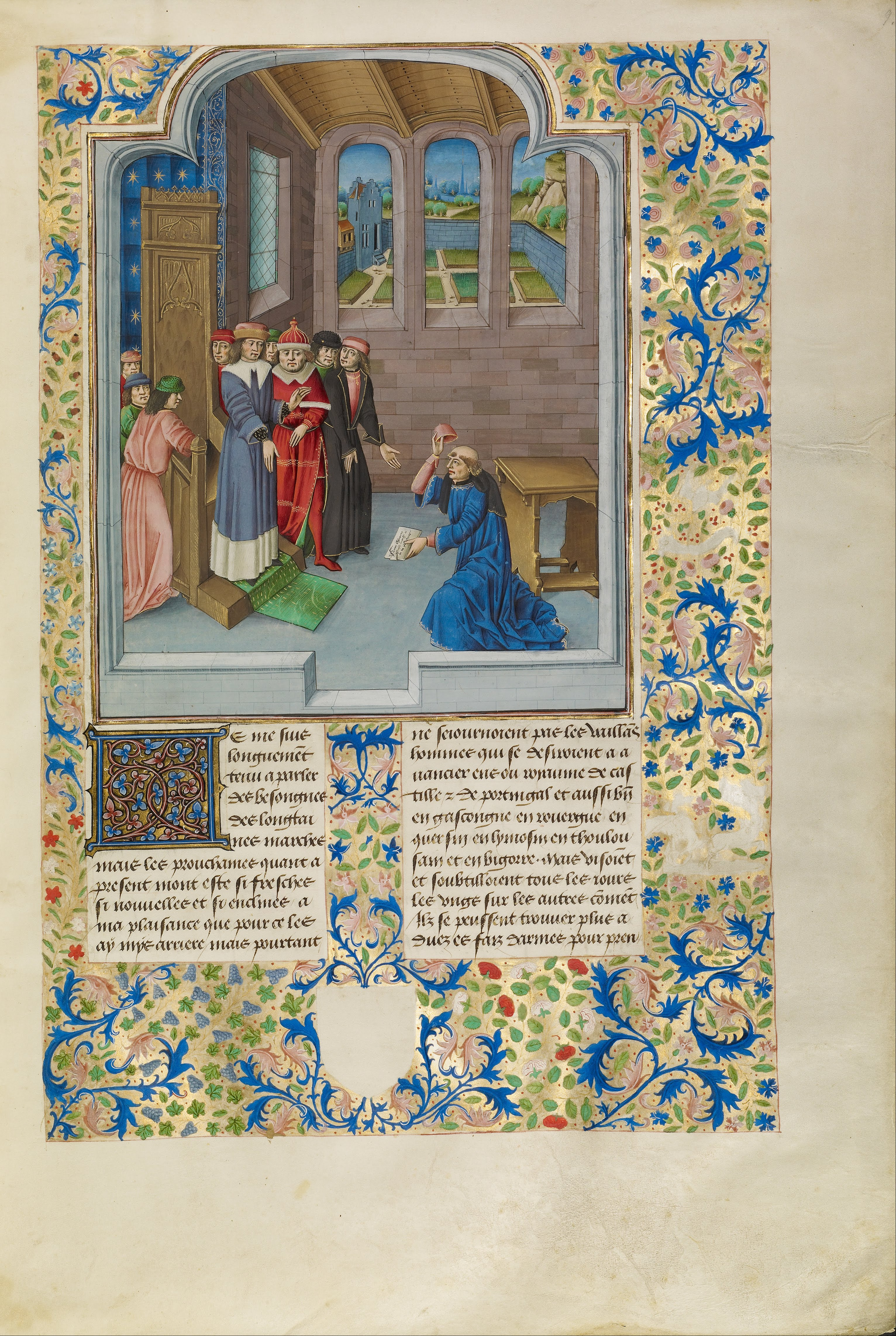 Within an impressive stone house surrounded by an extensive walled garden, the poet, historian, and cleric Jean Froissart, author of the Chronicle , kneels before the Count of Foix. Raising his hat in homage, Froissart presents a letter of introduction, hoping to conduct research for his book. This miniature on the opening pages of the third volume of Froissart's account of European events of the 1300s asserts the eyewitness quality of his history by presenting him in person before one of his sources. For his narrative, Froissart interviewed witnesses, drew upon his own direct observation, and recorded gossip accumulated from frequent stays at the courts of England and France. The taste of the dukes of Burgundy for large, illuminated history books was shared by other rulers who also patronized Flemish artists. An important member of the English court, perhaps even the king himself, probably commissioned this copy of the third book of Froissart's Chronicle . The owner is not known, however, since parts of the border of this opening page that were destined for the owner's heraldry and motto were left unfinished.